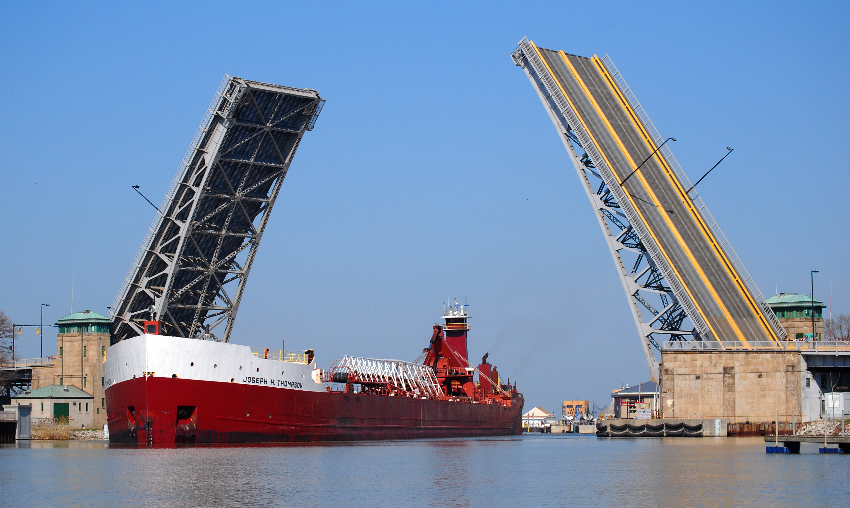 The Joseph H. Thompson comes into Lorain about 10 this morning.